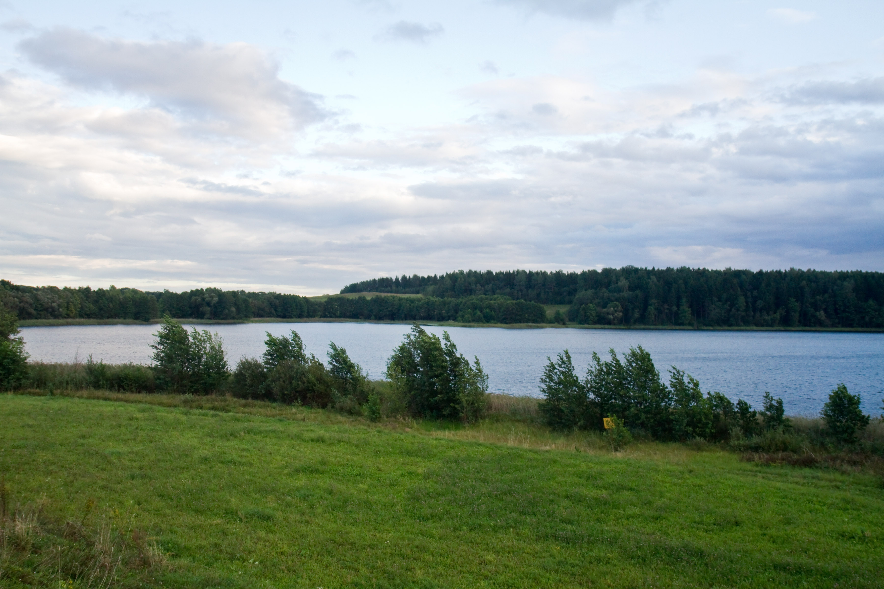 Ilmienak Lake. Brasłau district, Viciebsk province, Belarus.